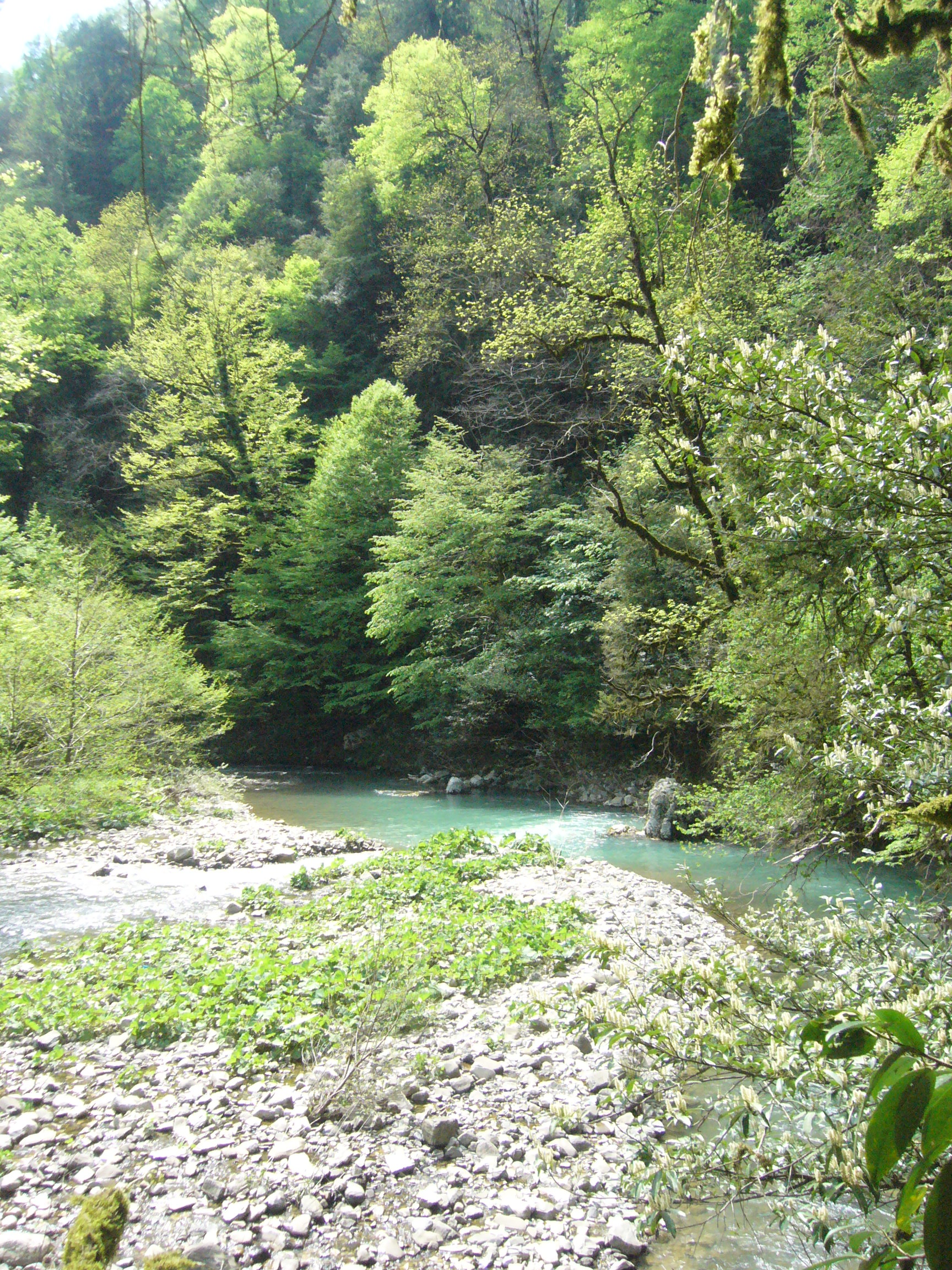 Caucasus state biosphere reserve This image is related to the protected area of Russia number 2300002